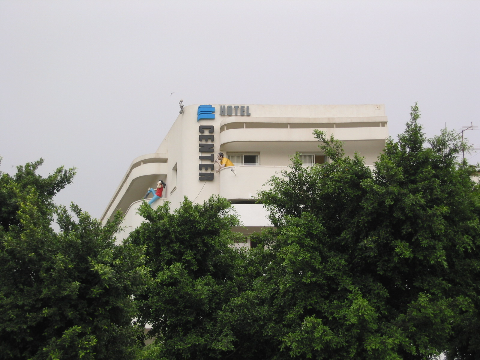 Hotel Center, 8 Dizengoff Square/2 Zamenhoff Street, Tel Aviv